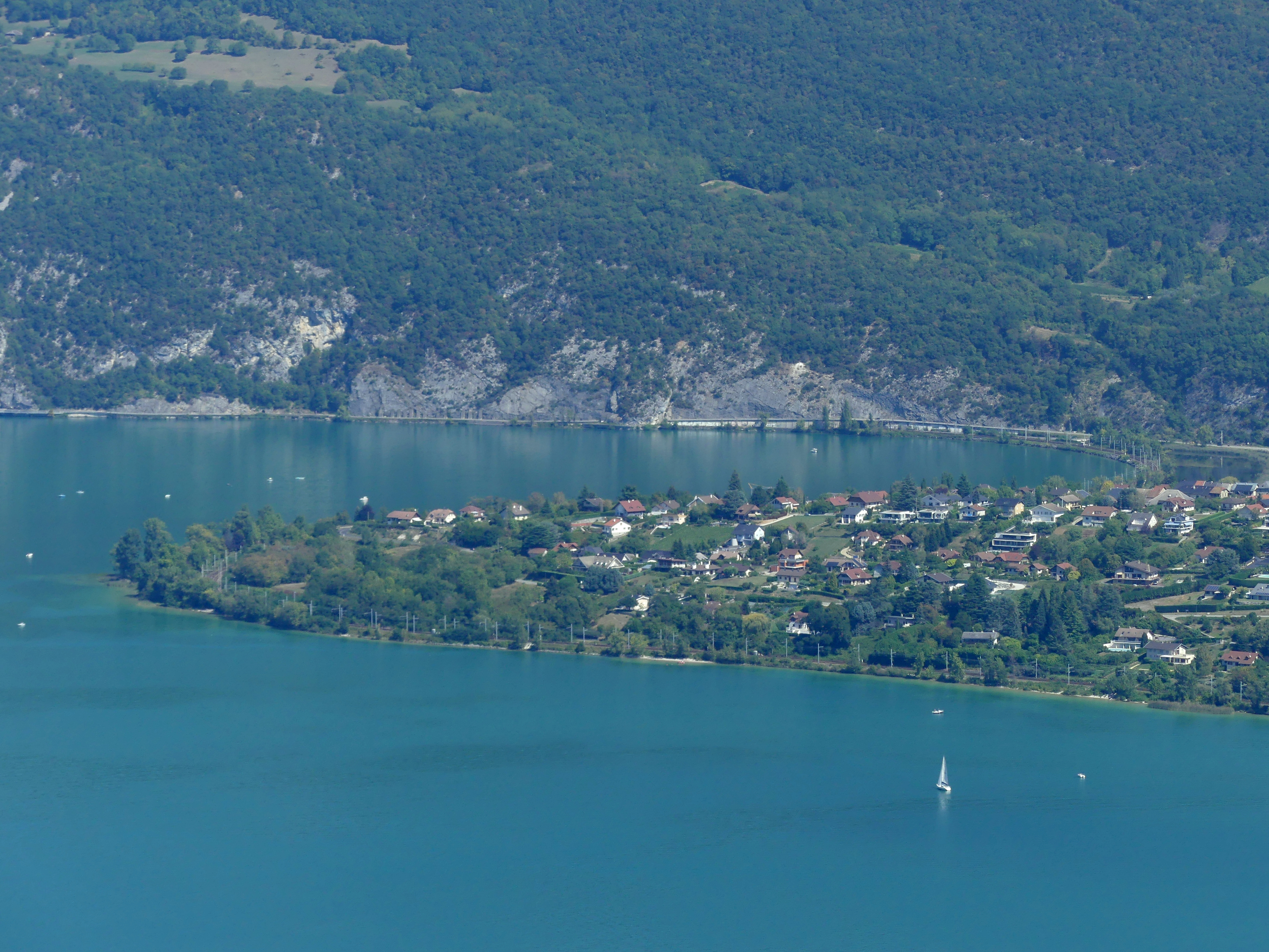 Sight, from the heights of the Mont de la Charvaz, of the pointe Forestier cape and baie de Grésine bay of the Bourget lake, at the North of Aix-les-Bains in Savoie, France.